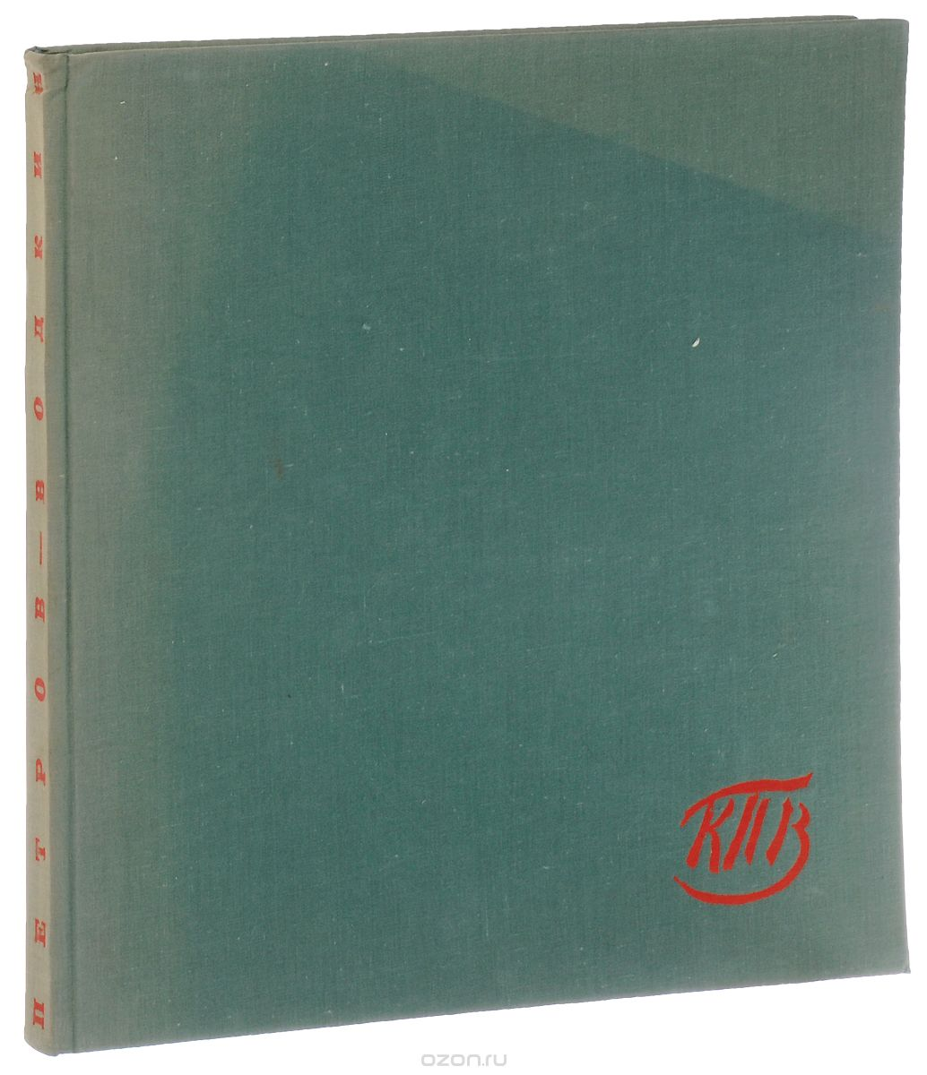 В.И. Костин. Монография К.С. Петрова-Водкина.